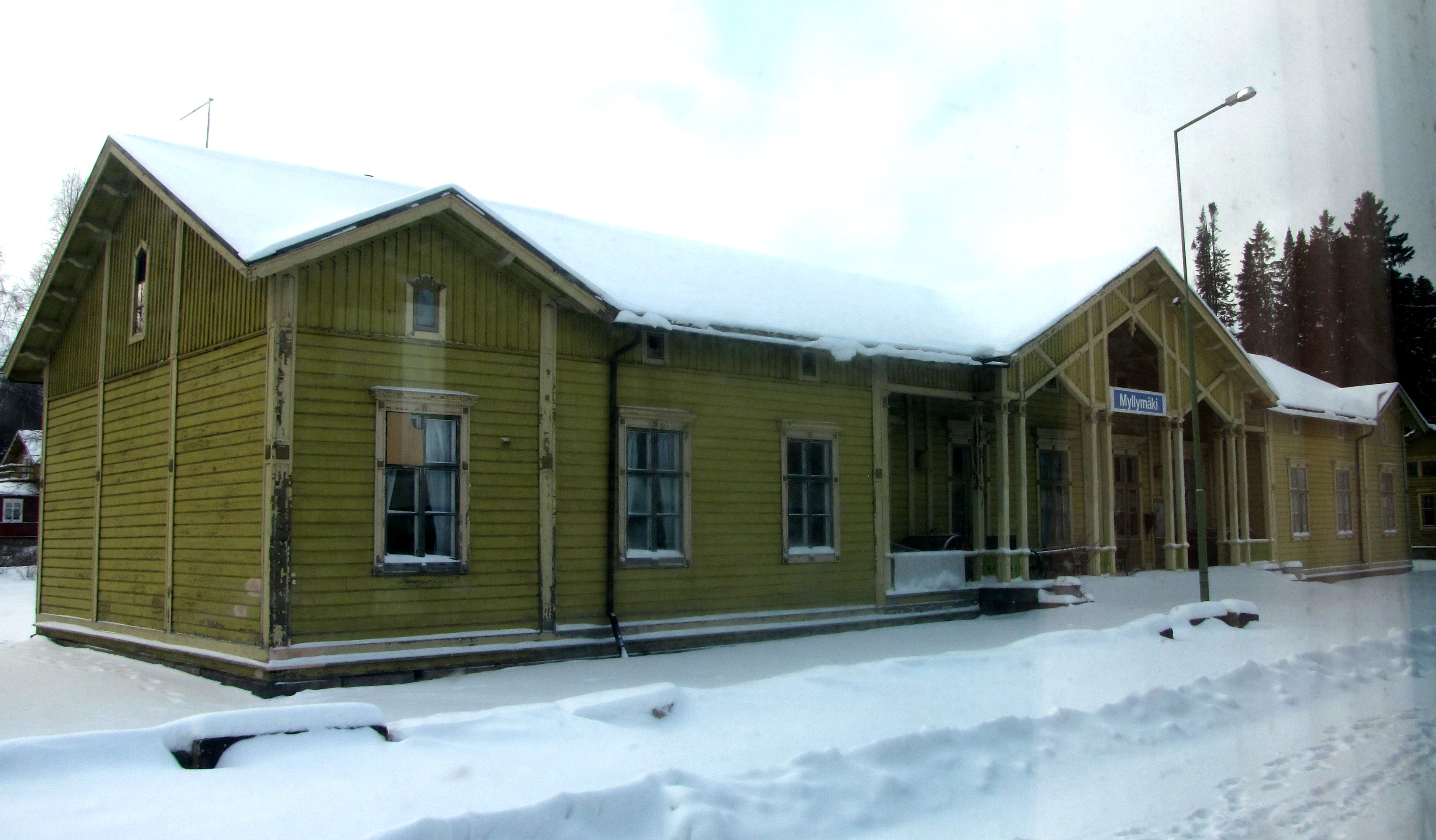 Myllymäki railway station in Ähtäri, Finland.